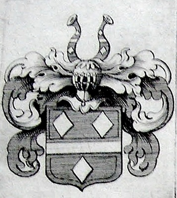 Wappen der pfälzisch-rheinhessischen Adelsfamilie von Heppenheim genannt vom Saal